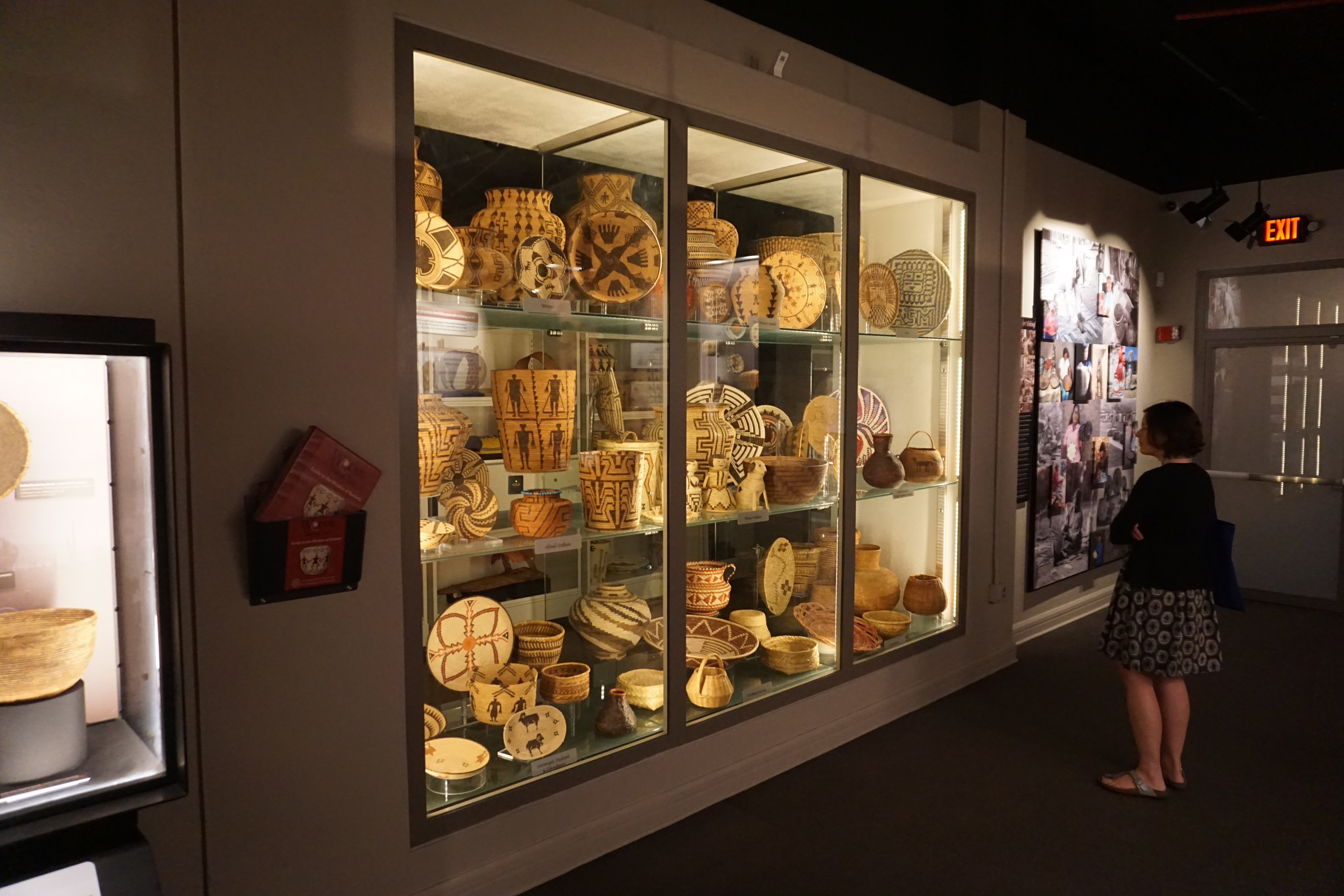 The Window of Baskets display in the Woven Through Time: American Treasures of Native Basketry and Fiber Art exhibit at the Arizona State Museum on the campus of the University of Arizona in Tucson, Arizona (United States).